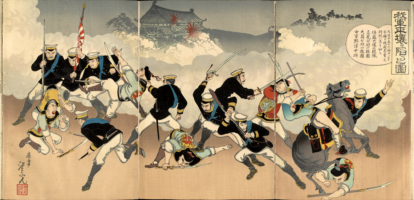 “Picture of Our Forces Bringing About the Fall of Pyongyang”, Woodblock print (nishiki-e); ink and color on paper, dated September 1894